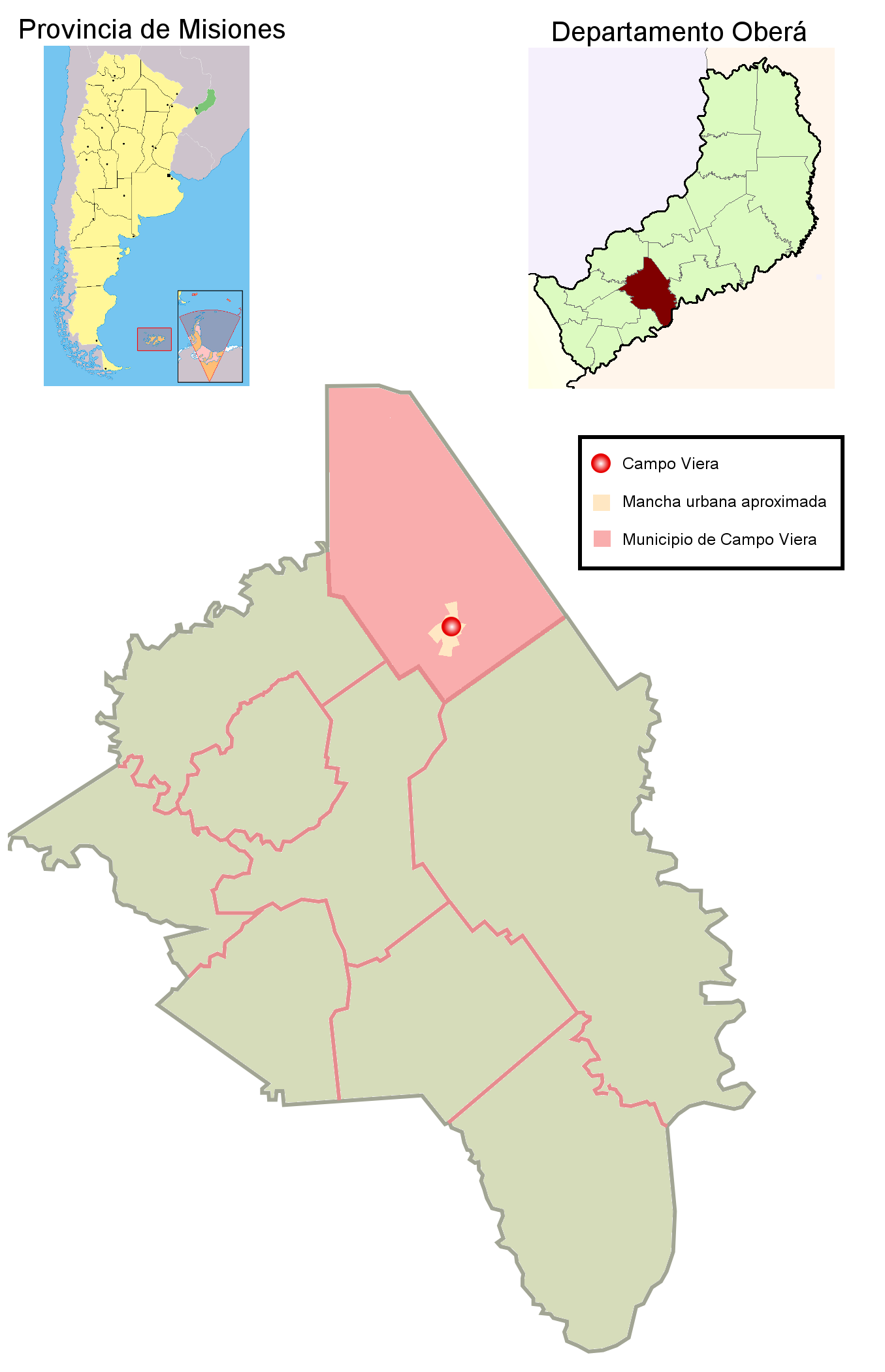 A map showing municipio of Campo Viera in Oberá departament, Misiones province, Argentina. Also shows Campo Viera town location and its urban sector. Created with GIMP.